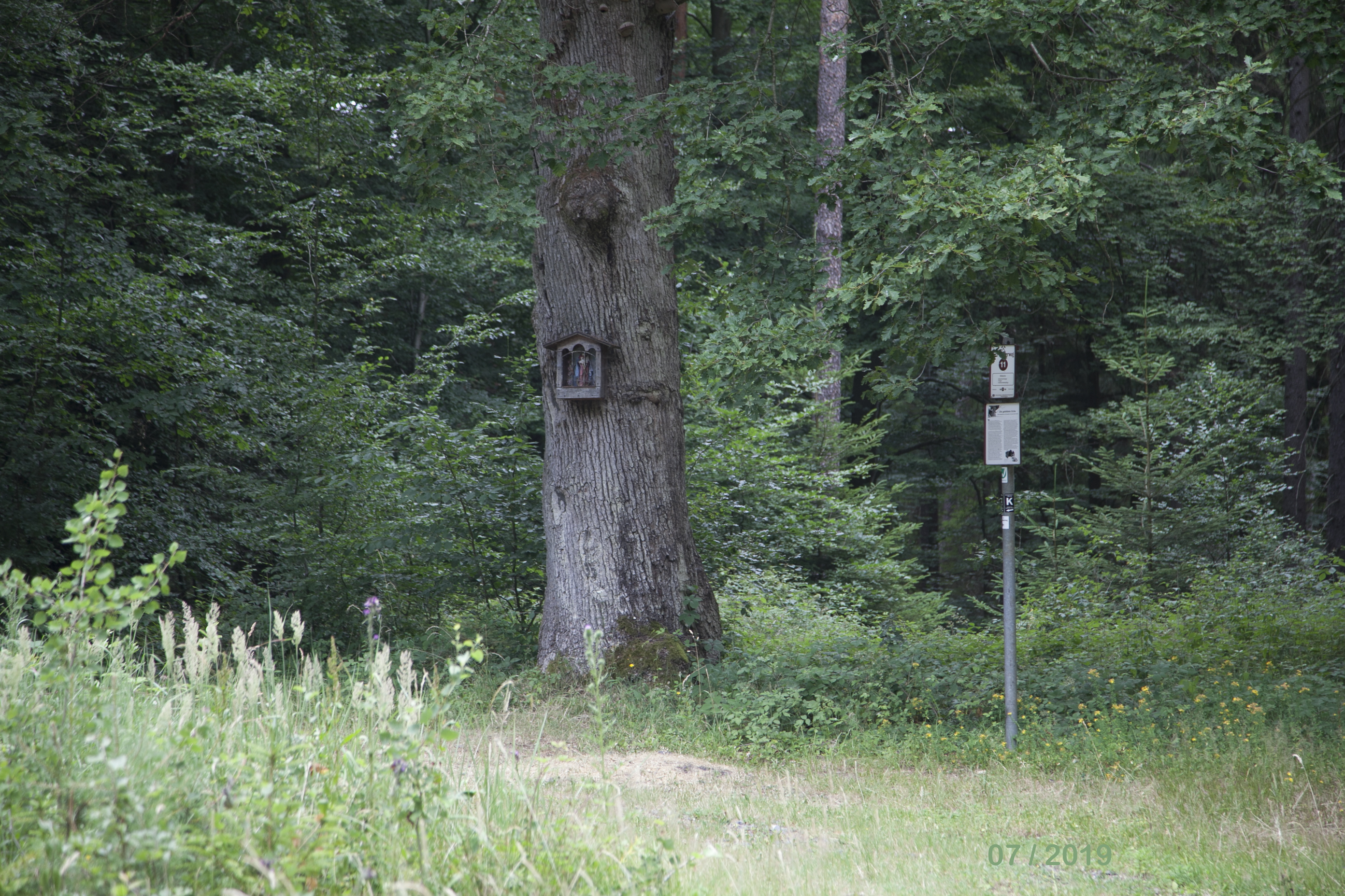 picture oak of village Burglahr (closer seen trunk with effigy)